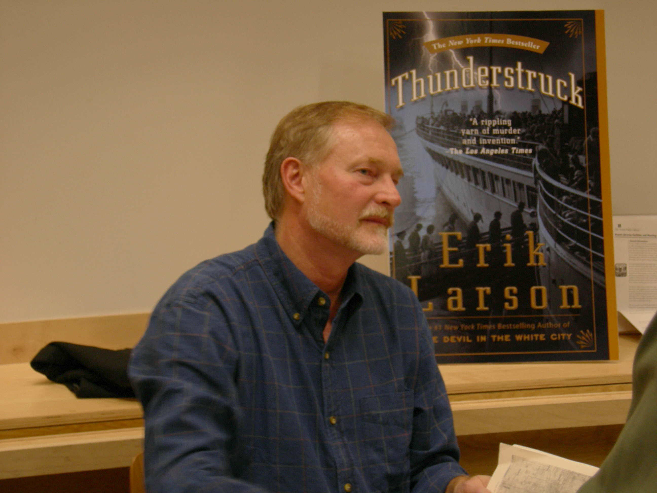 Erik Larson speaking at the Ballard Branch of Seattle Public Library, Seattle, Washington, USA.